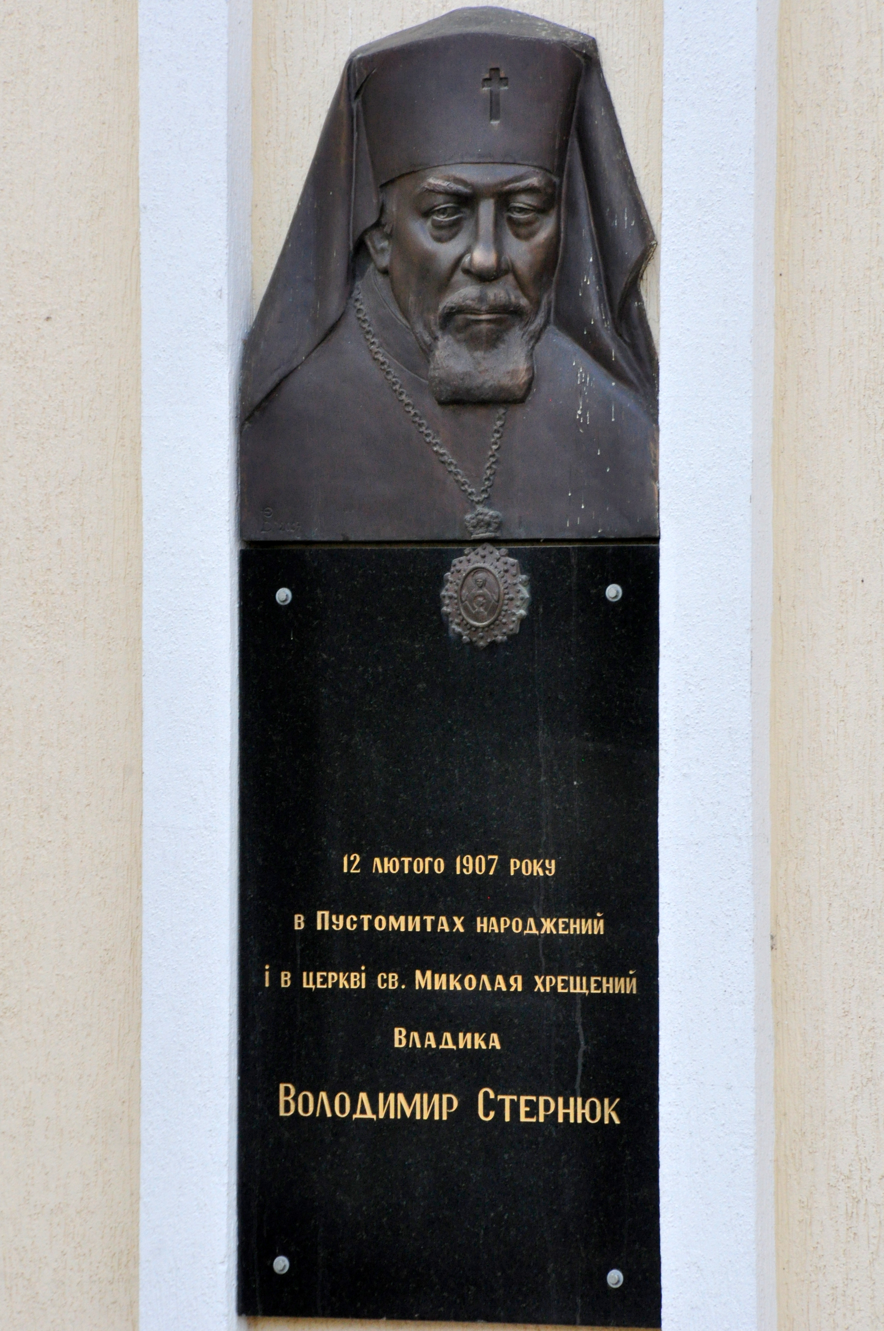 Memorial plaque on the St.Nicholas Church in Pustomyty, where Archbishop Volodymyr Sterniuk was christened